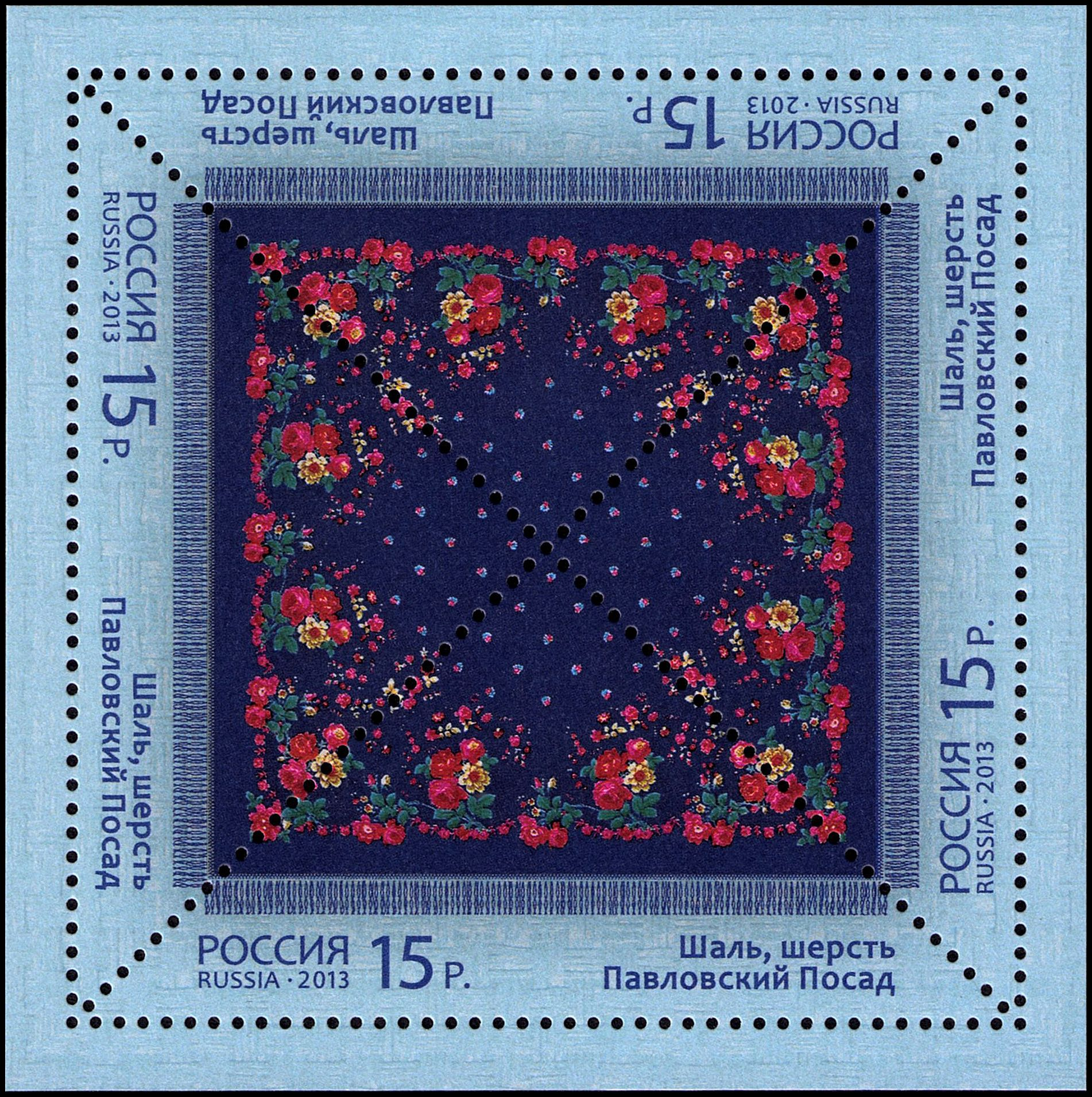 Decorative and Applied Arts of Russia (ongoing stamp series, issue III). Headscarves. A shawl of wool. Pavlovsky Posad, Moscow Oblast. The stamp of Russia, 15.00 Rubles, 5 July 2012, PTC Marka Catalogue No 1716, Michel No 1947. The triangular stamps were issued in the sheets of small format: 4 stamps in 1 sheet. Coated paper. Multioloured. Perforation: frame 11½. Size of the stamp: 50×50×70 mm (35×70 mm). Size of the stamp sheet: 80×80 mm. Print run: 200,000 stamps.